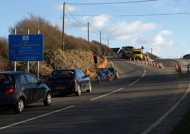 Roadworks at Helscott As the notice explains, the A39 is being realigned at Helscott, and the new road, on the right, will be a little further west than the old.